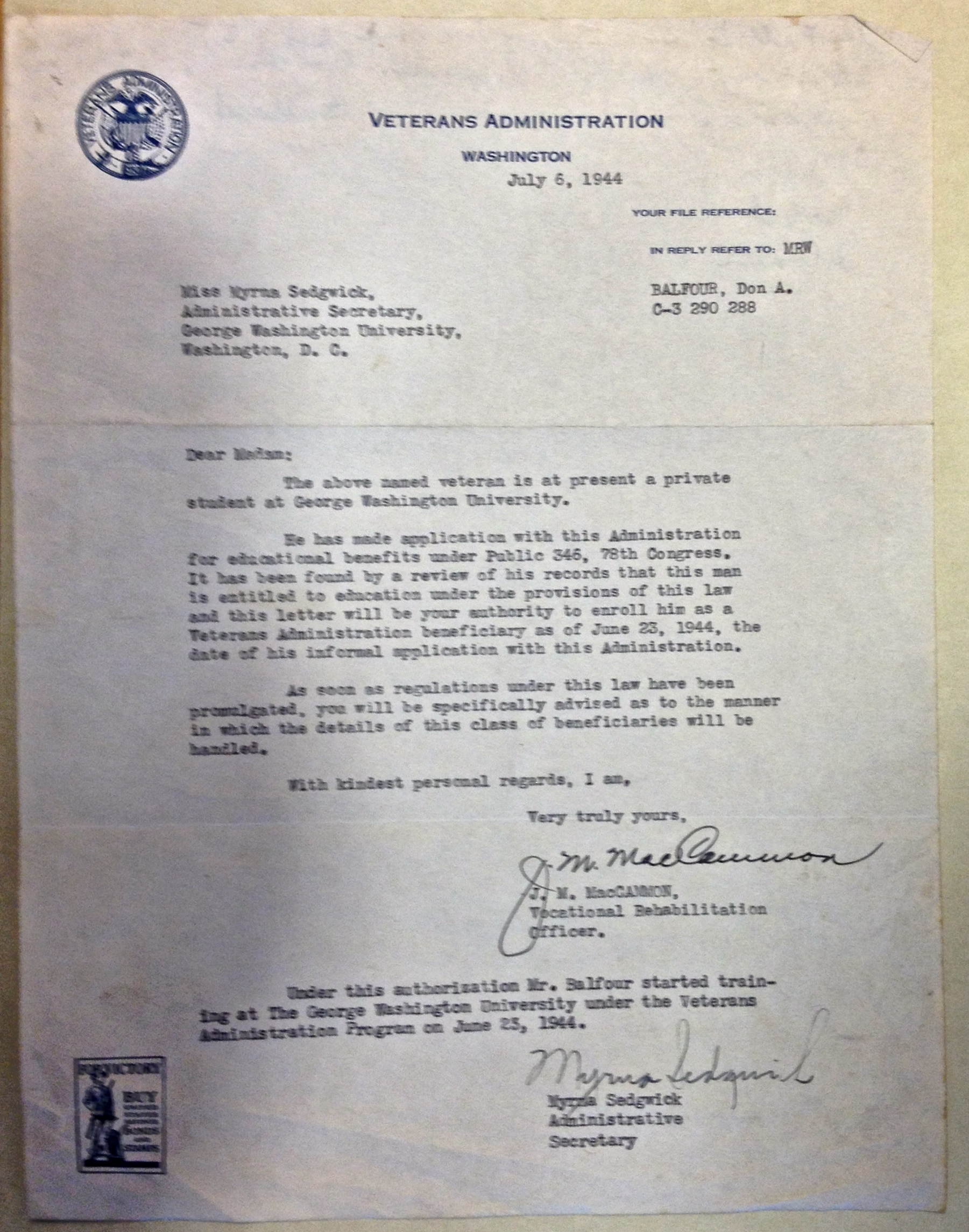 Veterans Administration letter for Don A. Balfour, July 6, 1944 - GI Bill student at George Washington University. "The first recipient of the 1944 GI Bill was a GW student (Don A. Balfour, BA, ‘45)."[1] References ↑ The George Washington University Profile. . Retrieved on 2014-01-09.